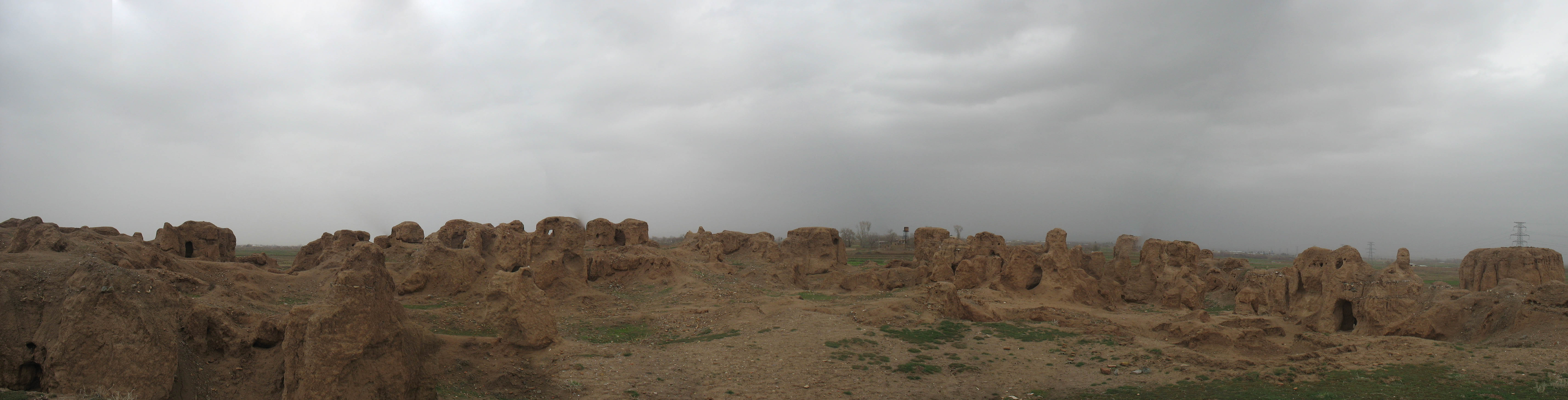 A Panorama of what is remained from Kohandezh of Nishapur after excavations